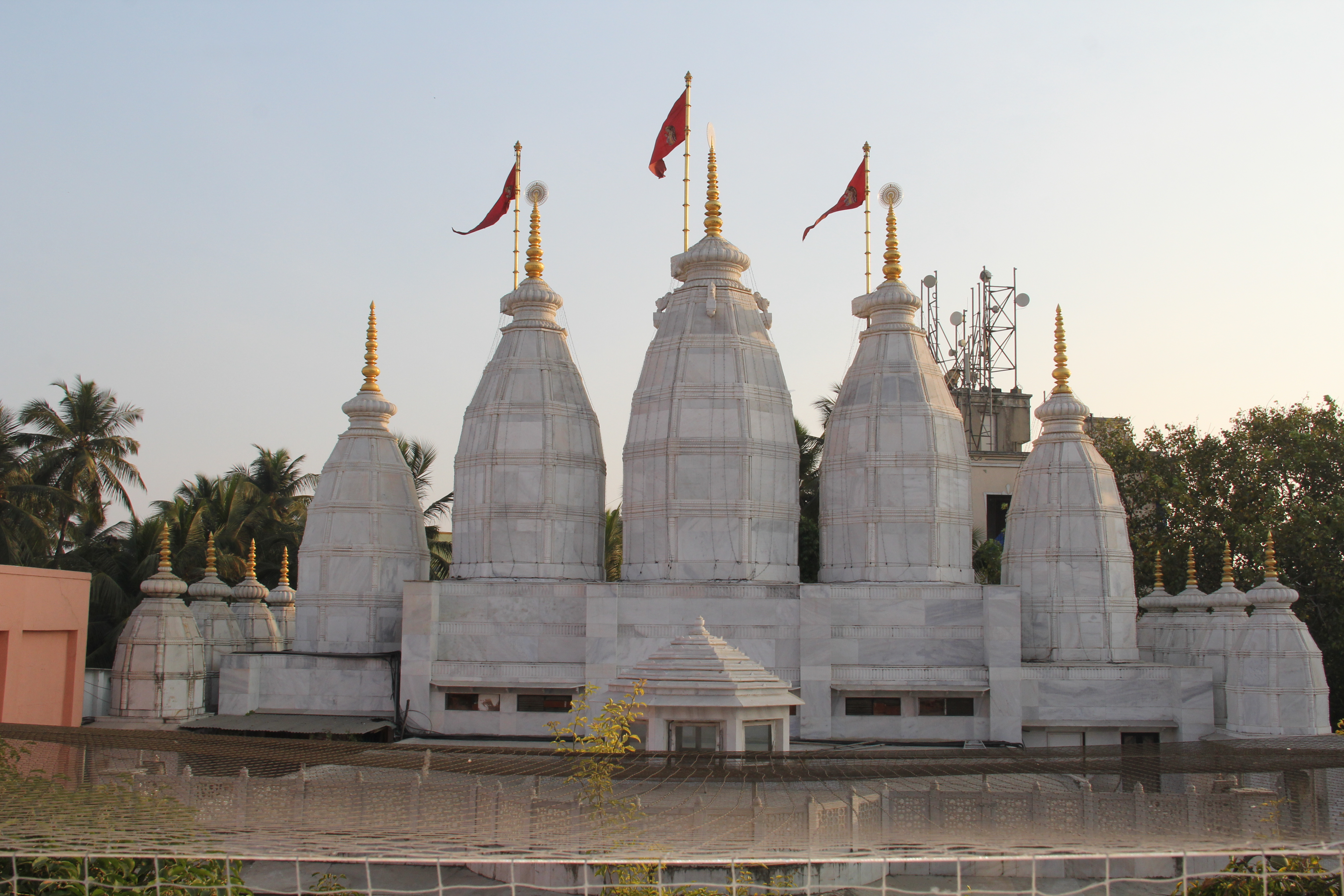 ISKCON Juhu